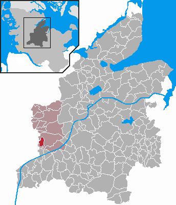 Locator maps of municipalities in Schleswig-Holstein - District Rendsburg-Eckernförde